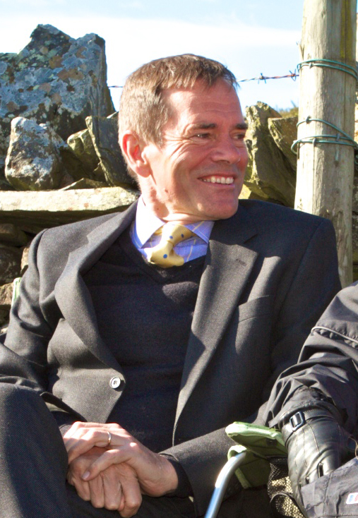 The Isle of Man Governor, Adam Wood, chatting with a spectator at the Manx Motor Racing Club's Hill Climb at the Sloc